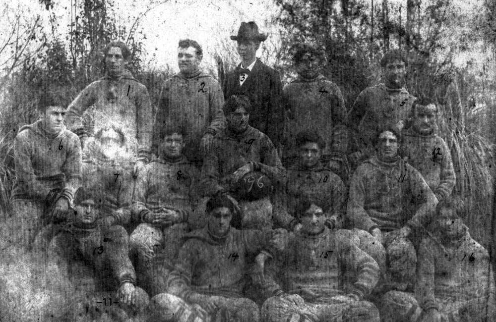 Photo of the 1896 LSU football team. Players numbered are: 1) Slaughter 2) Schnider 3) Jeardeau 4) Ledbetter 5) J. Daspit 6) Schoenberger 7) Arrighi 8) Hayek 9) Scott 10) Chavanne 11) A. Daspit 12) Westbrook 13) Gourrier 14) Robertson 15) Nicholson 16) Atkinson.